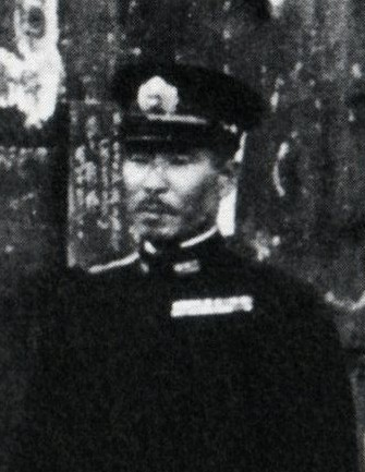 Endō Shinobu is an Imperial Japanese Navy Captain